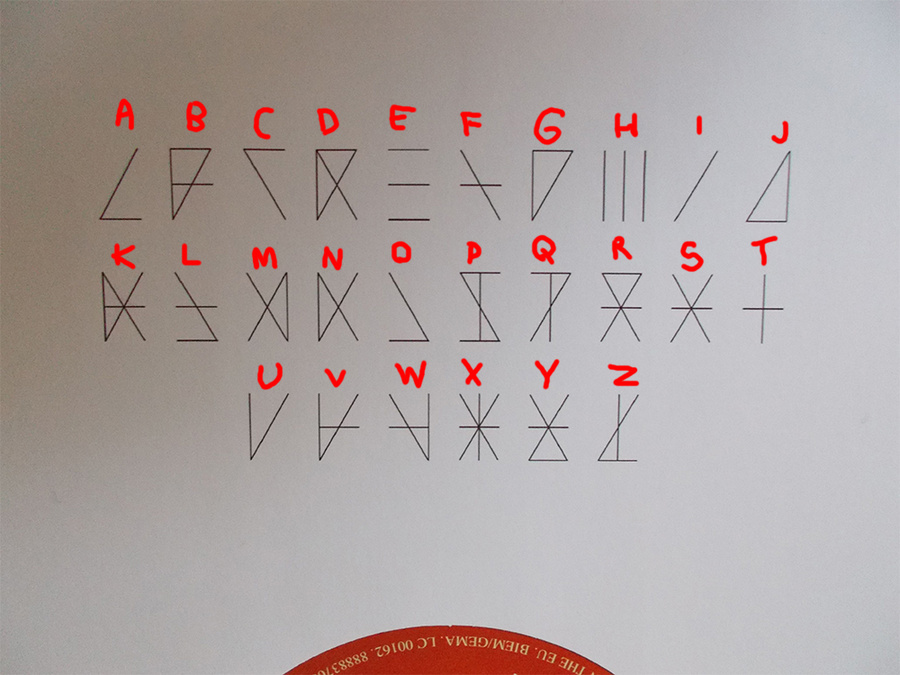 This is the font/ alphabet Madeon uses for his cryptic messages.